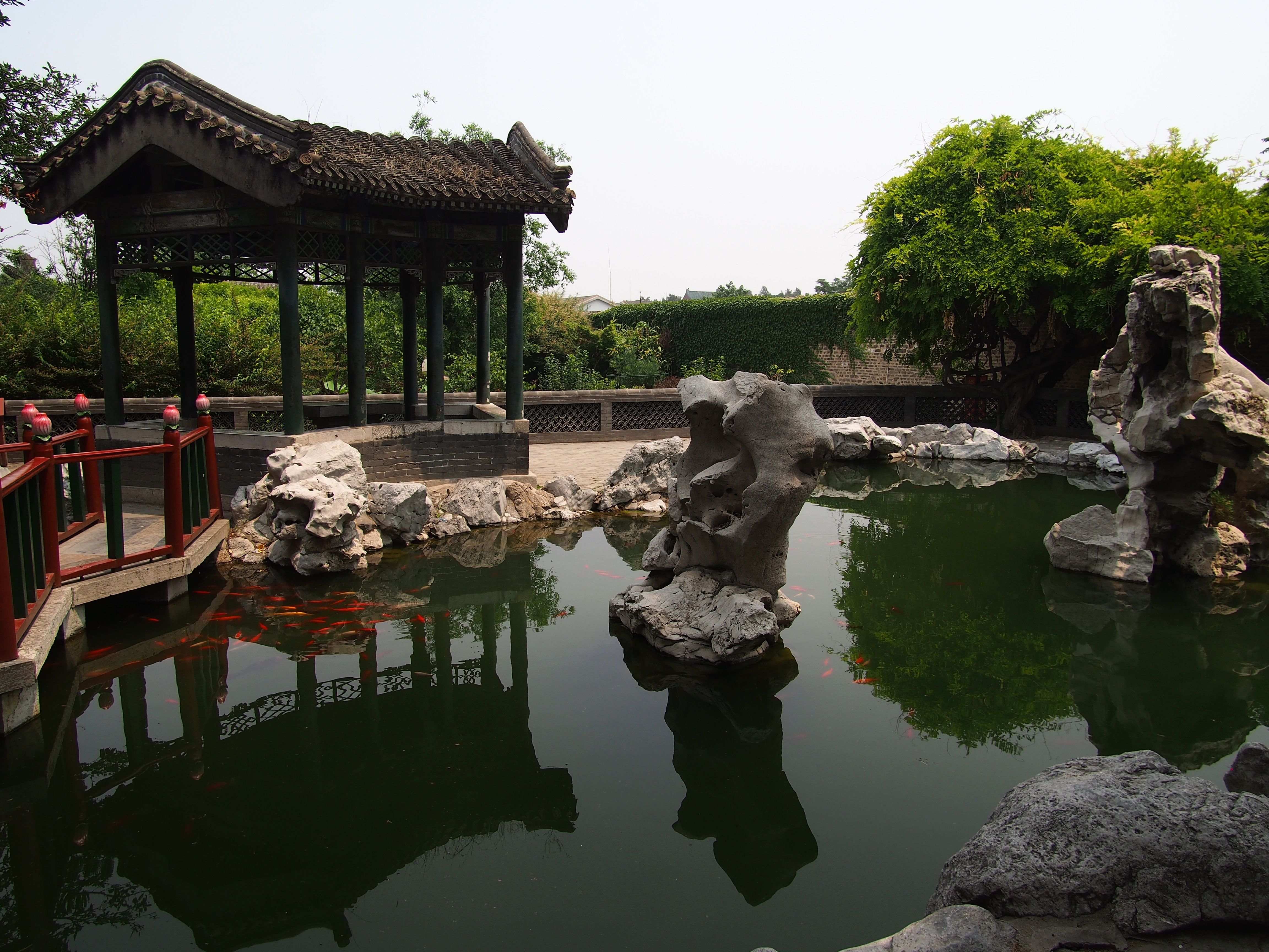 孔府假山 - Rockery in Kong Family Mansion - 2015.06